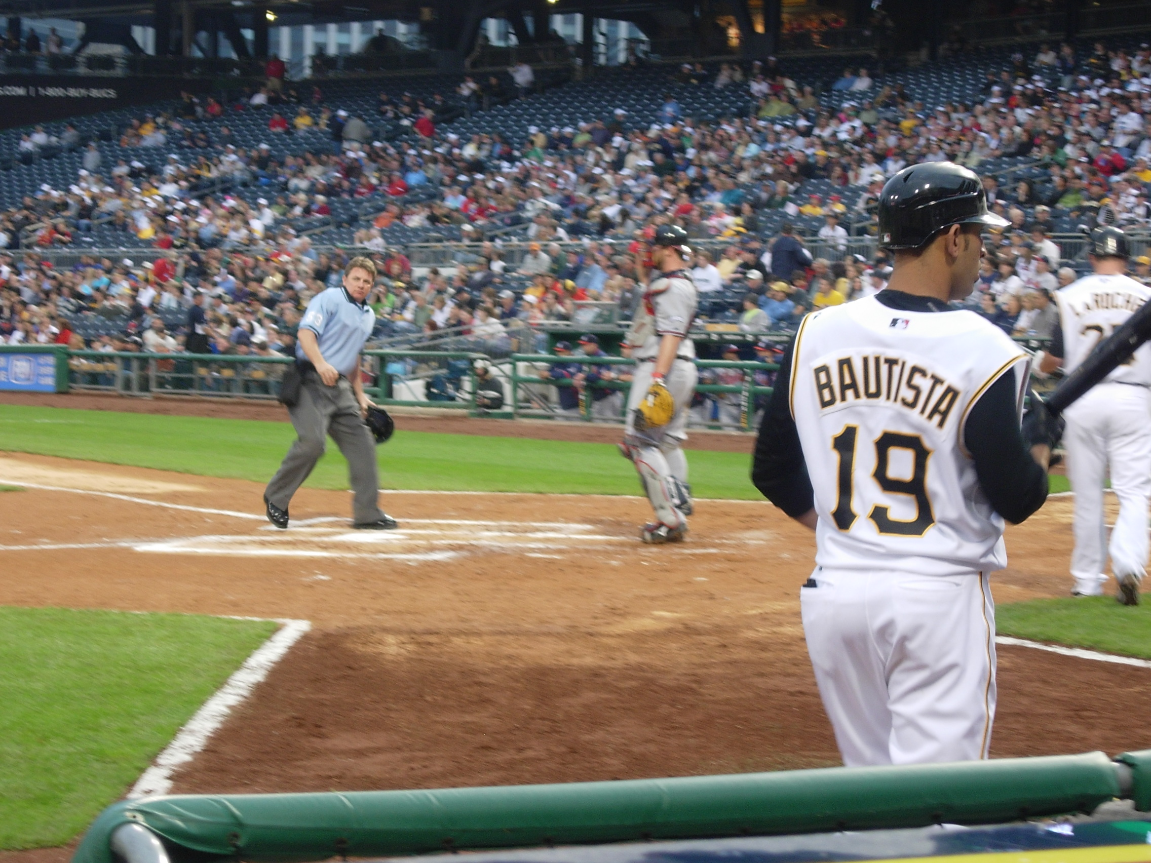 Jose Bautista on the on deck circle. 02:04, 11 May 2008 . . 2,272×1,704 (1.13 MB) . . DB9